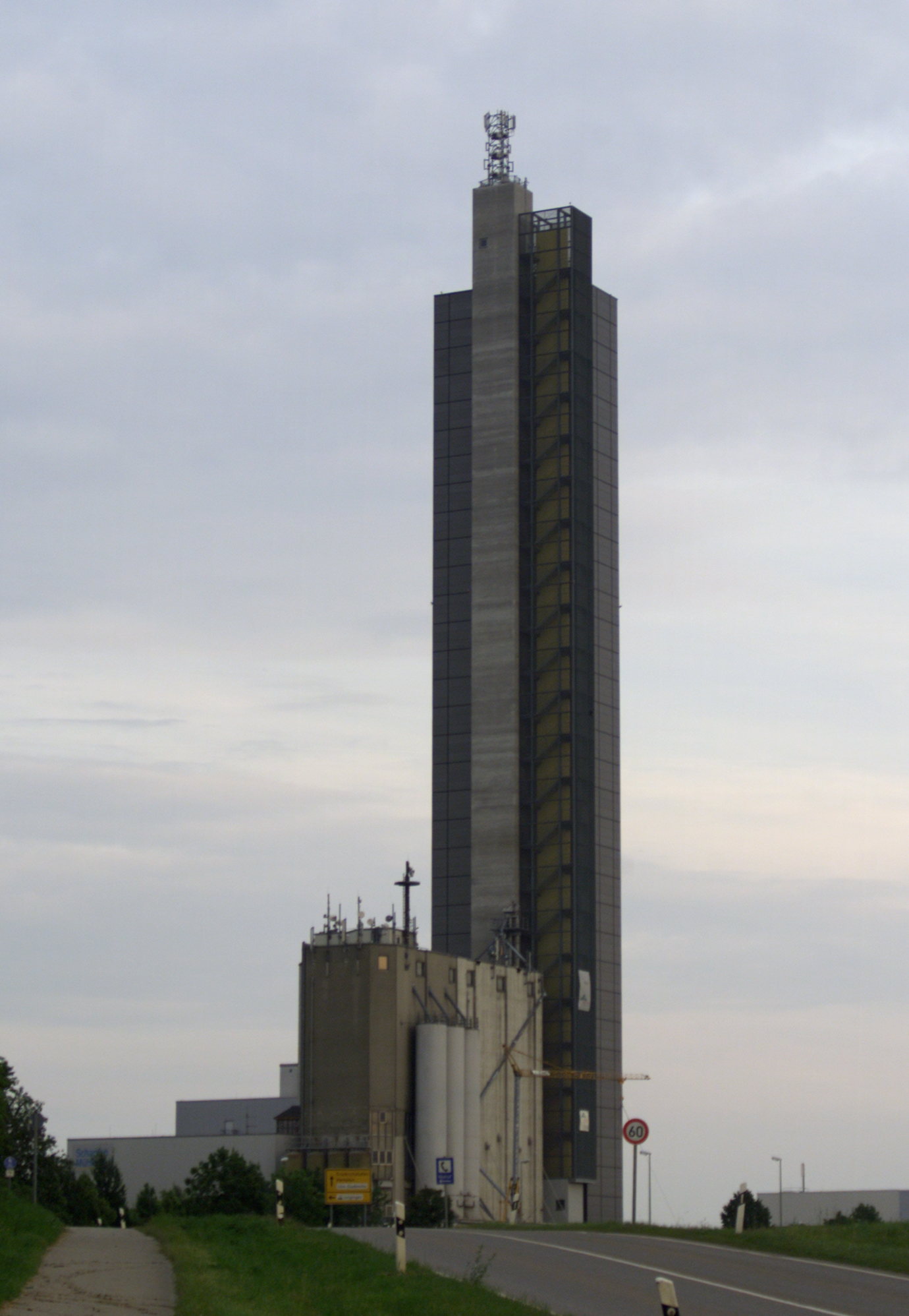 View of north-west-face of the "Schapfenmühle's" silo in Ulm, Germany. (see also Schapfenmühle)